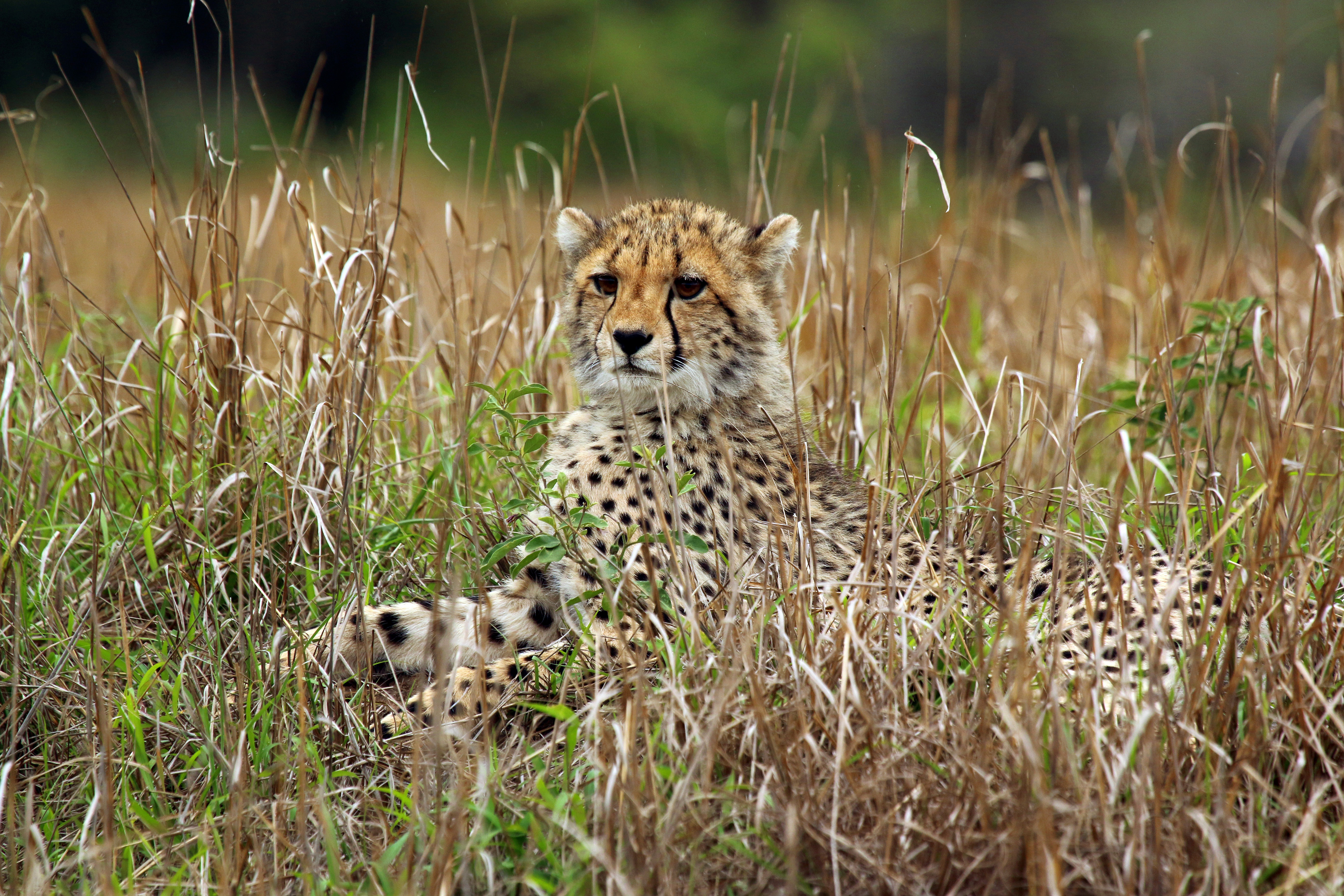 Cheetah (Acinonyx jubatus) cub, Phinda Private Game Reserve, KwaZulu Natal, South Africa. Cheetah cubs are hidden in long grass when mother goes hunting.